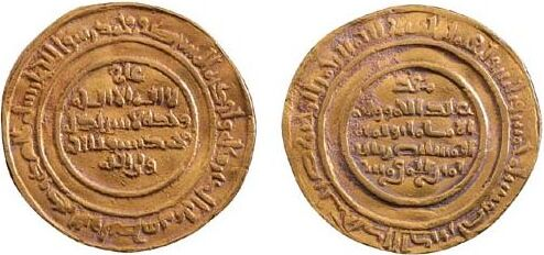 Fatimid dinar minted in 435 AH during the reign of al-Mustansir (427-487 AH / 1036-1094 AD). Weight: 4.11g.